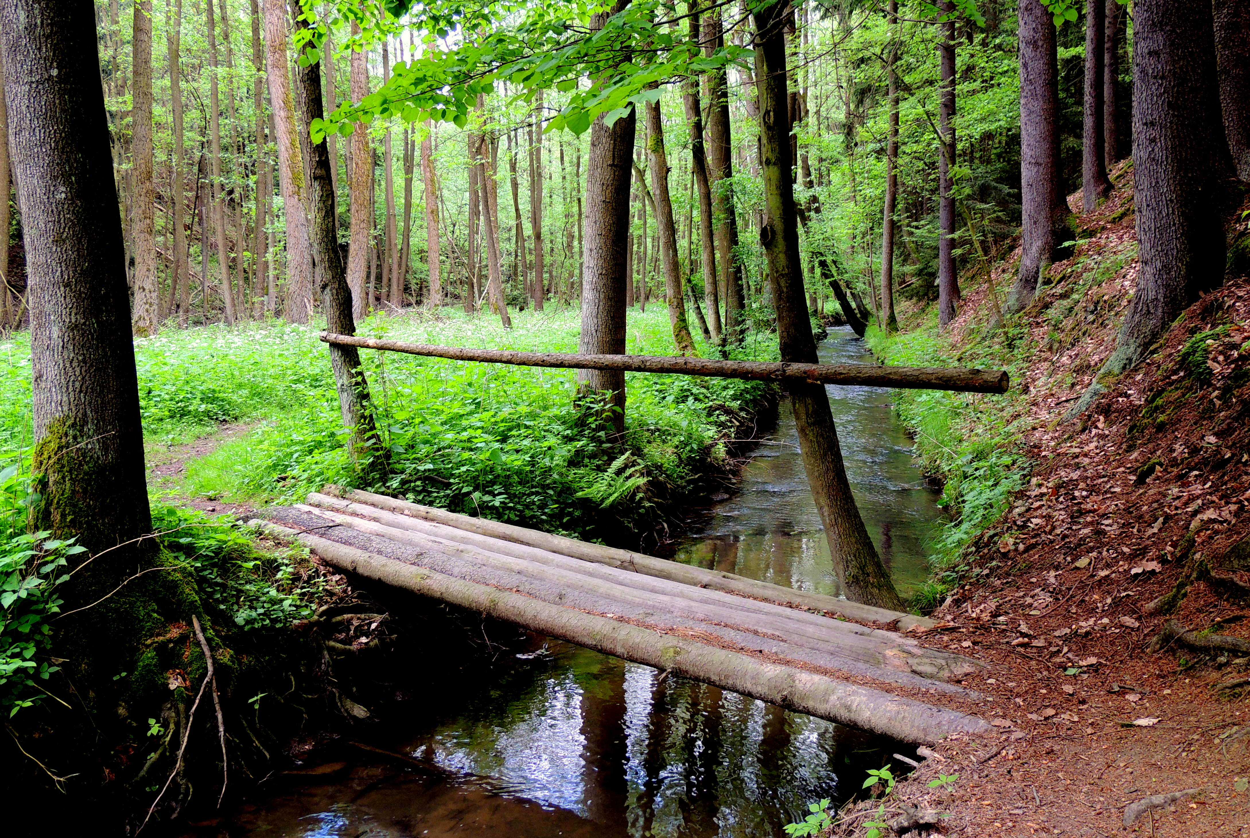 „Ann's Valley", nature reserve with a high landscapes of particular beauty territory. Photo location - Czechia, Pardubice Region, Skuteč town.